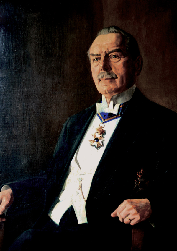 Painting of Pieter Rink by Willem van den Heuvel (1874-1925)